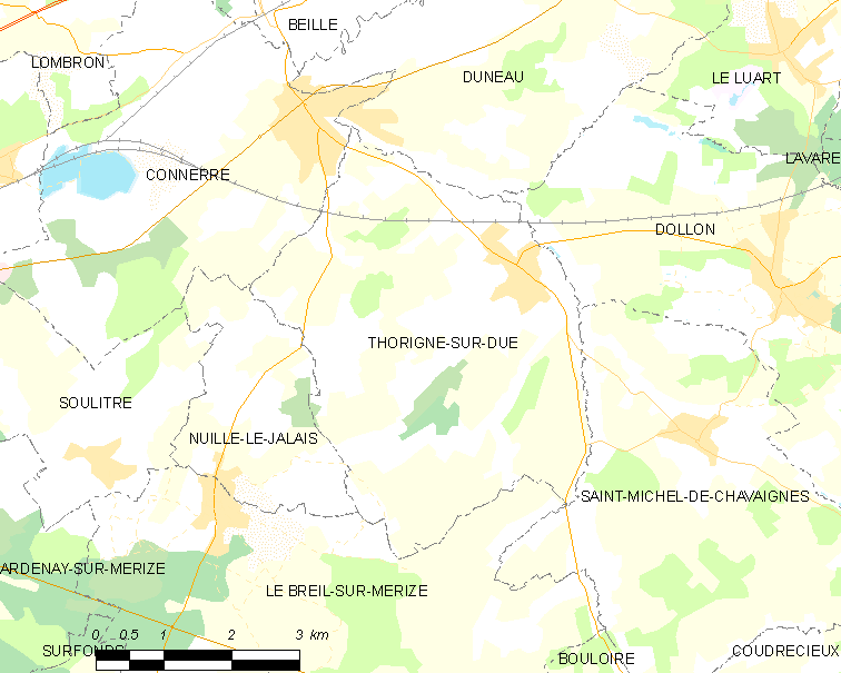 Map of French municipality